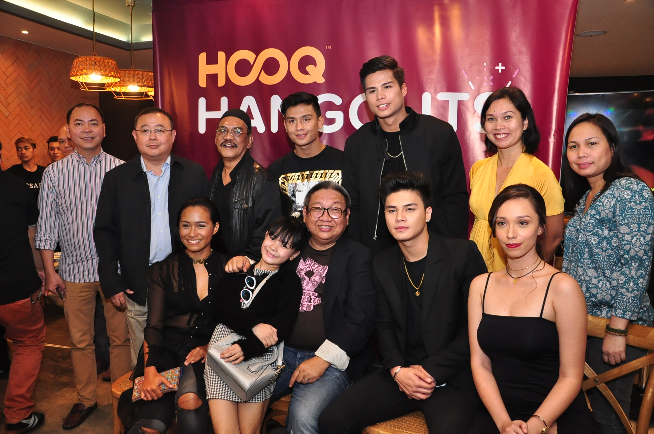 HOOQ Team with the cast of Seklusyon and Direk Erik Matti